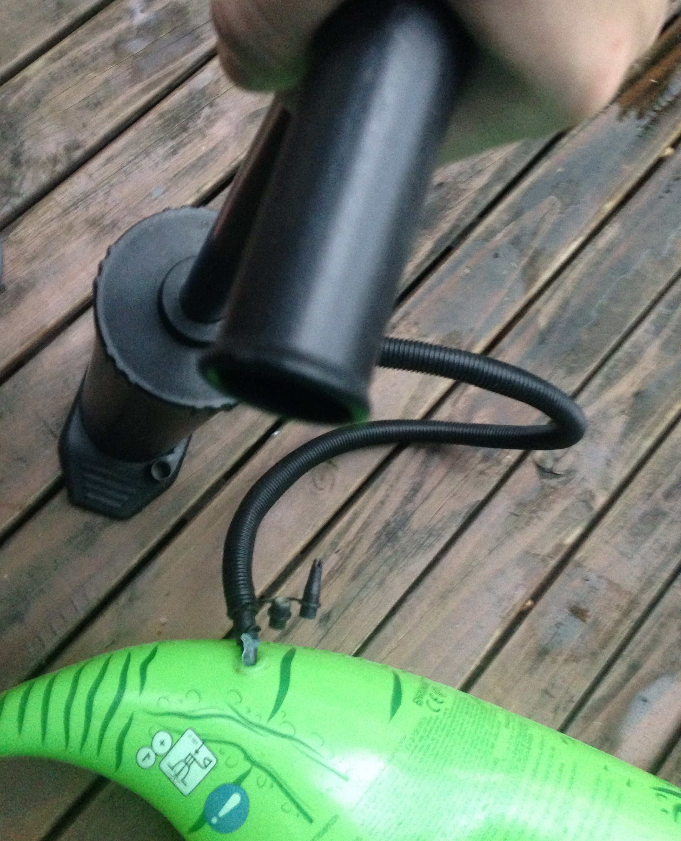 An air pump hose attached to a swim toy's inflation valve.